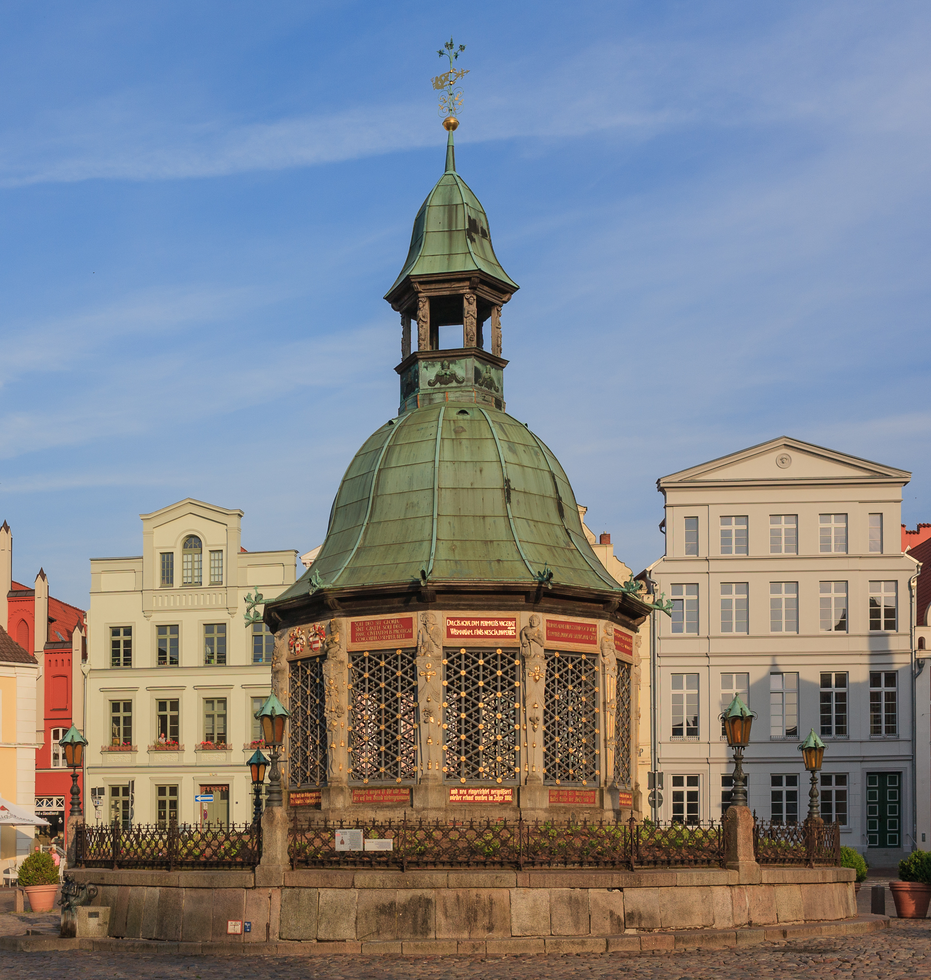 "Wasserkunst" on the market place in Wismar. Comprised a water reservoir (well) as part of the water supply system in Wismar. Built after plans of Philipp Brandin, a builder from Utrecht, Netherlands. This construction was finished in 1602.